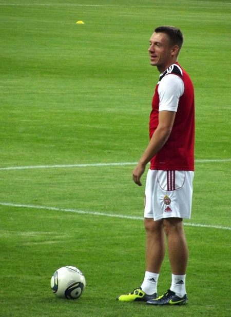 Łukasz Garguła